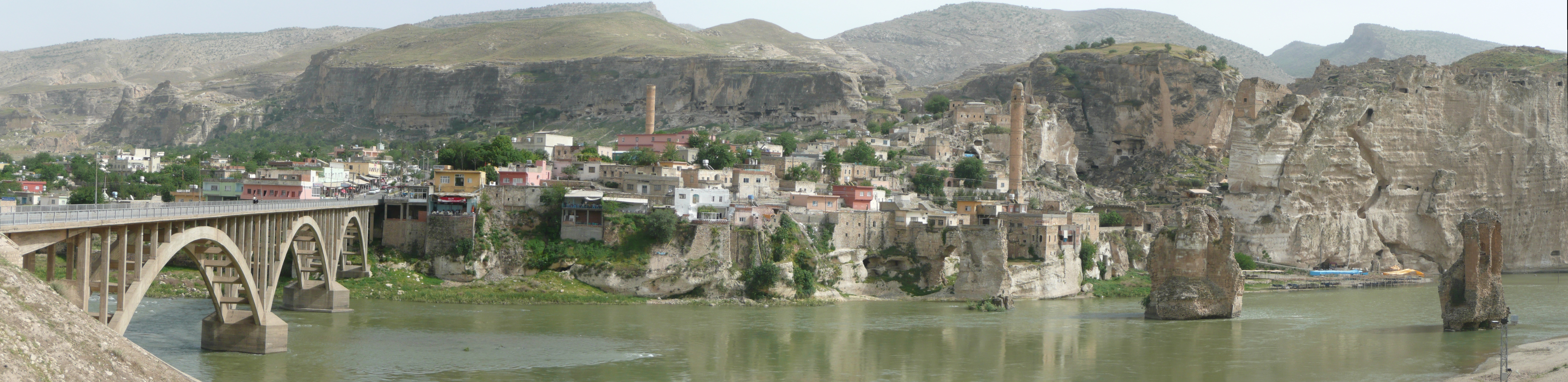 Photographs from Hasankeyf, Batman, Turkey